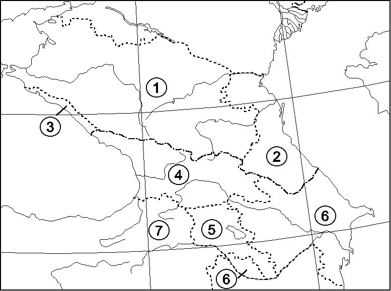 Гербарий Московского университета, районирование Кавказа